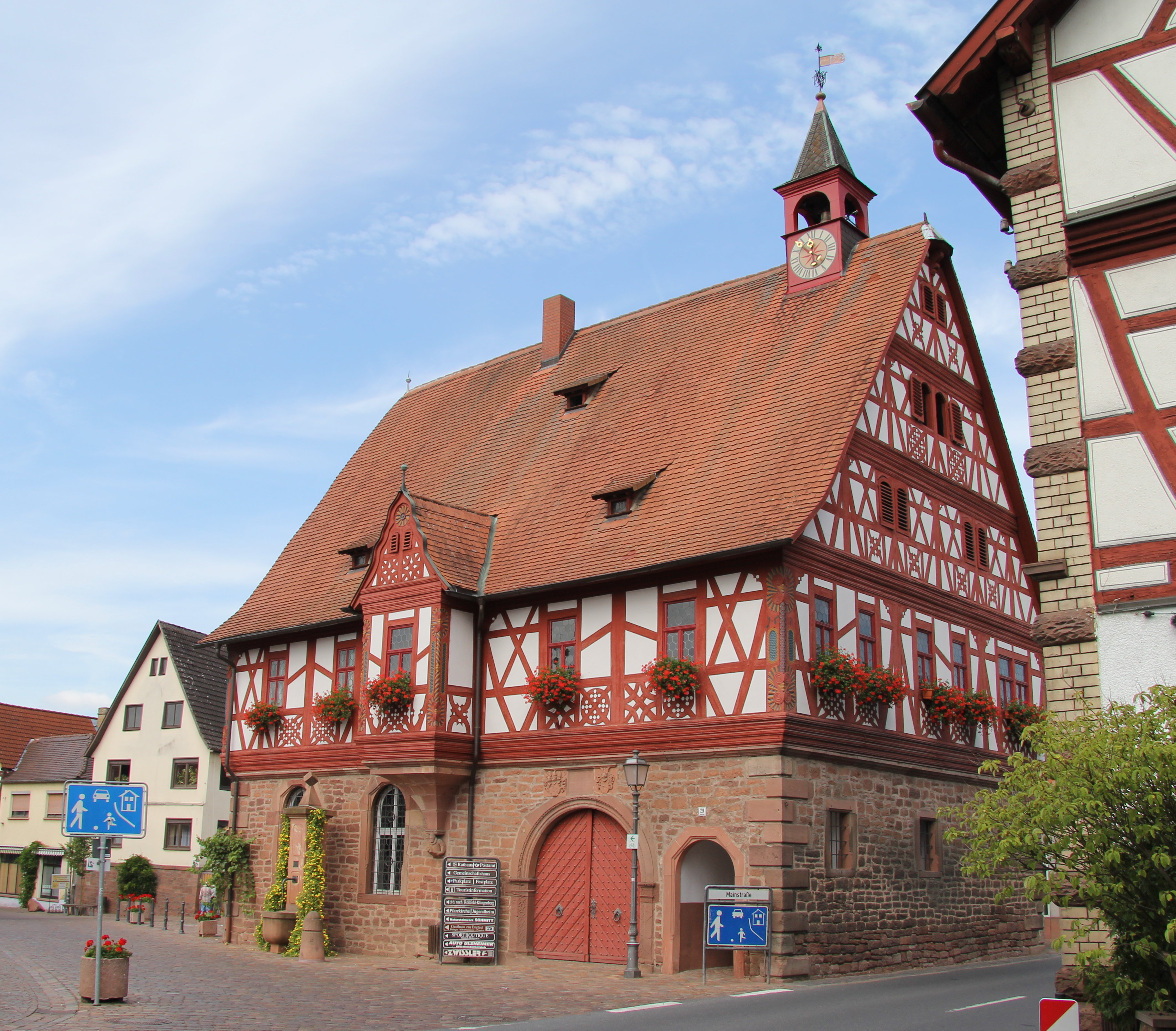 Historical town hall of Großheubach, Bavaria, Germany